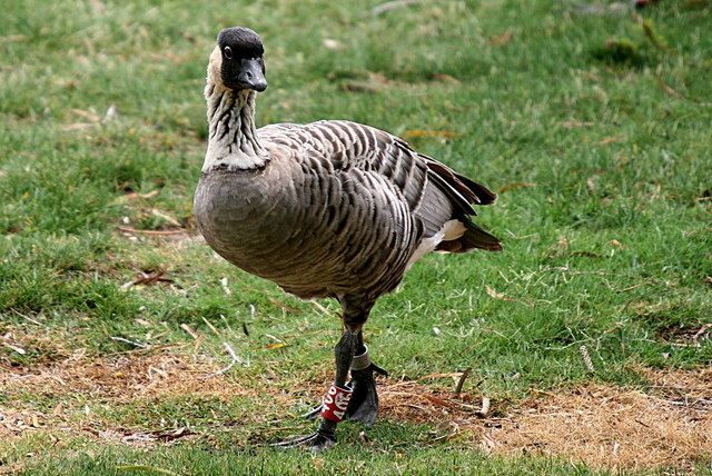 A Hawaiian Goose at Waikoloa, Hawaii, USA.